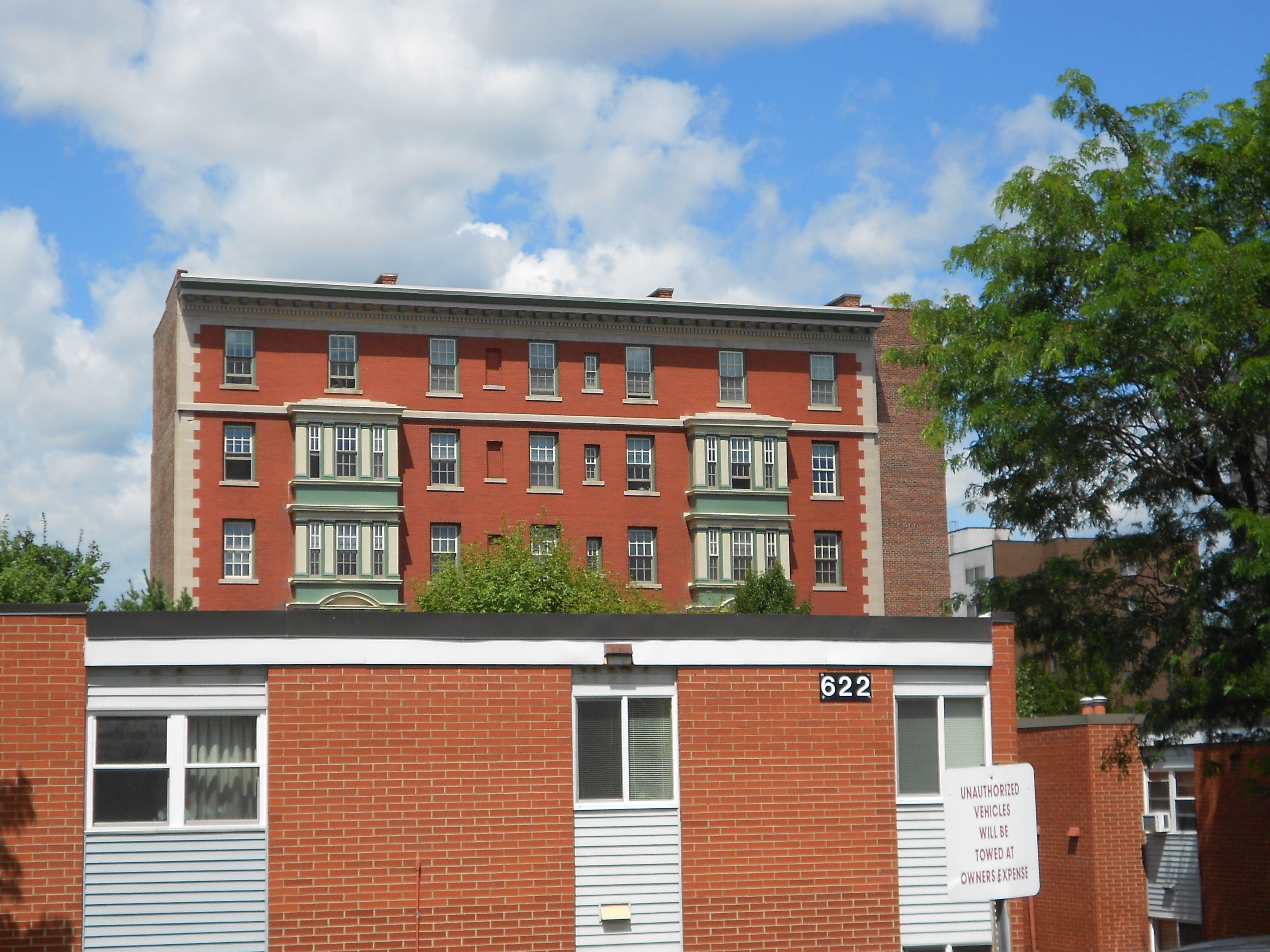 Florence Apartments, listed on the NRHP on January 5, 1984. Located at 643 Adams Avenue, Scranton, Lackawanna County, Pennsylvania. It's surrounded by low rise modern apartments, as seen here.